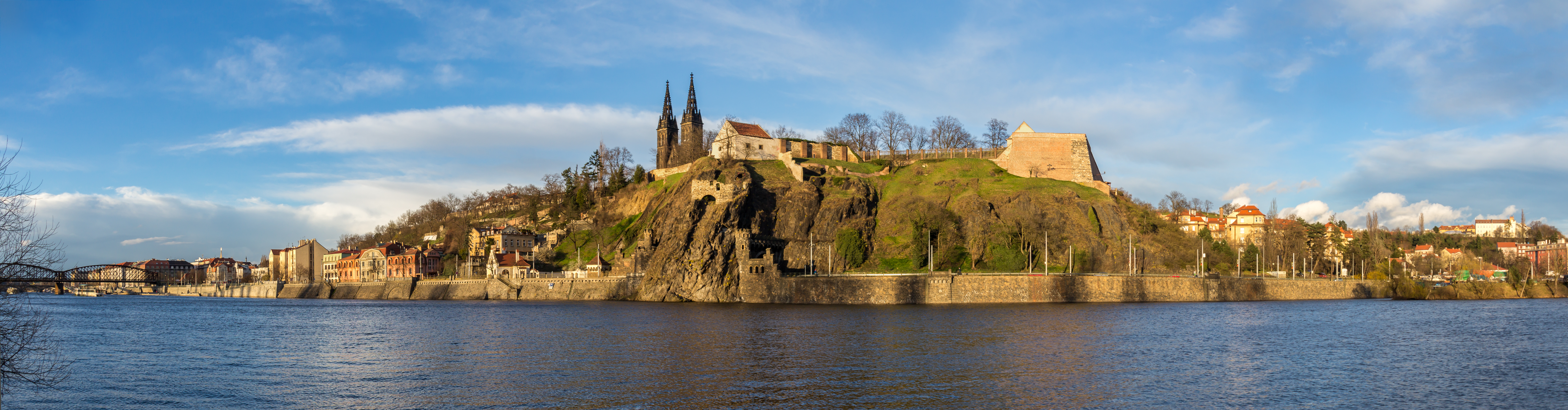 Vyšehrad Fortress, Prague